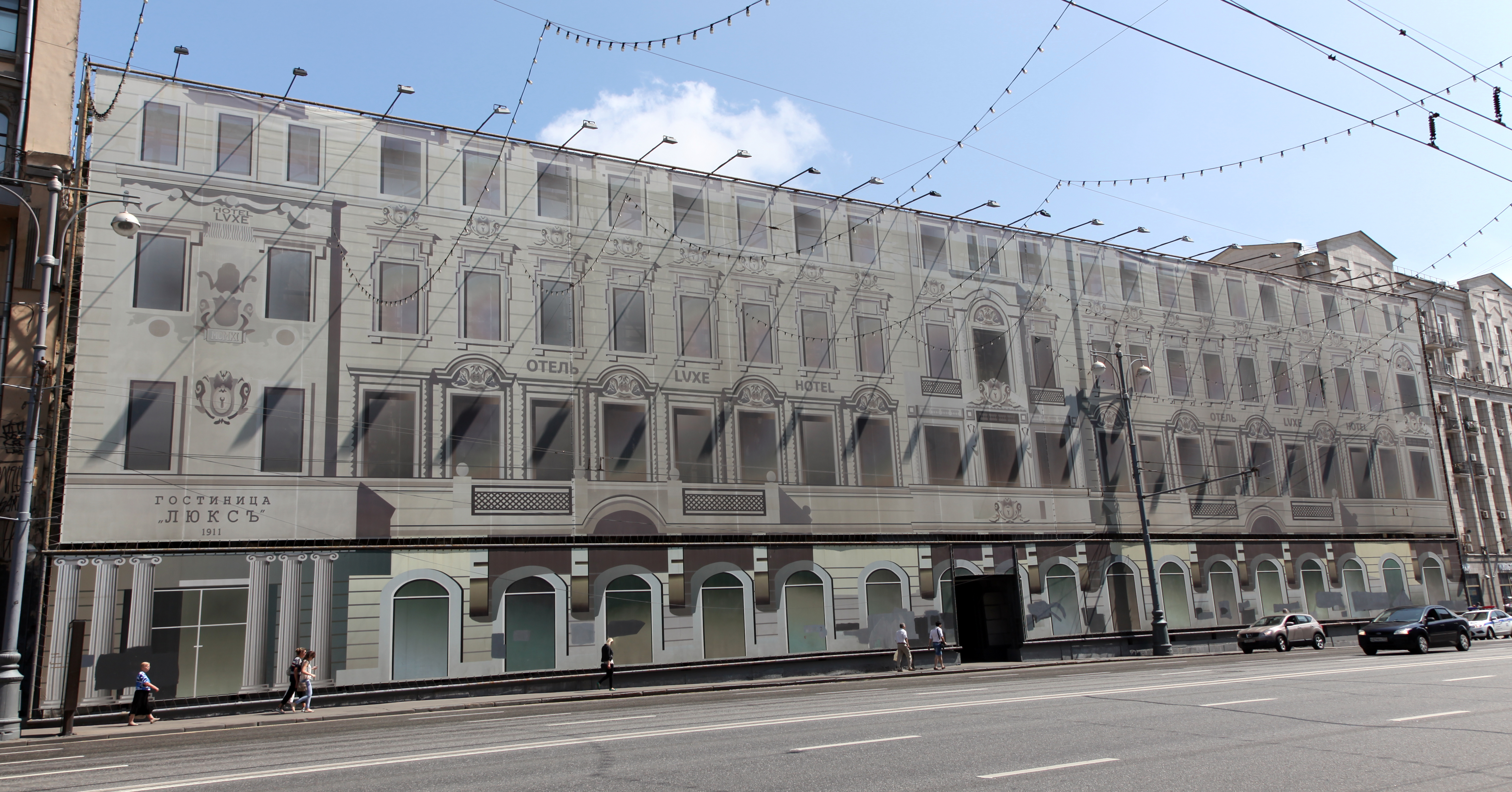 The famous Hotel Luxe (Люксъ) building in Tverskaya ulitsa, Moscow, under renovation